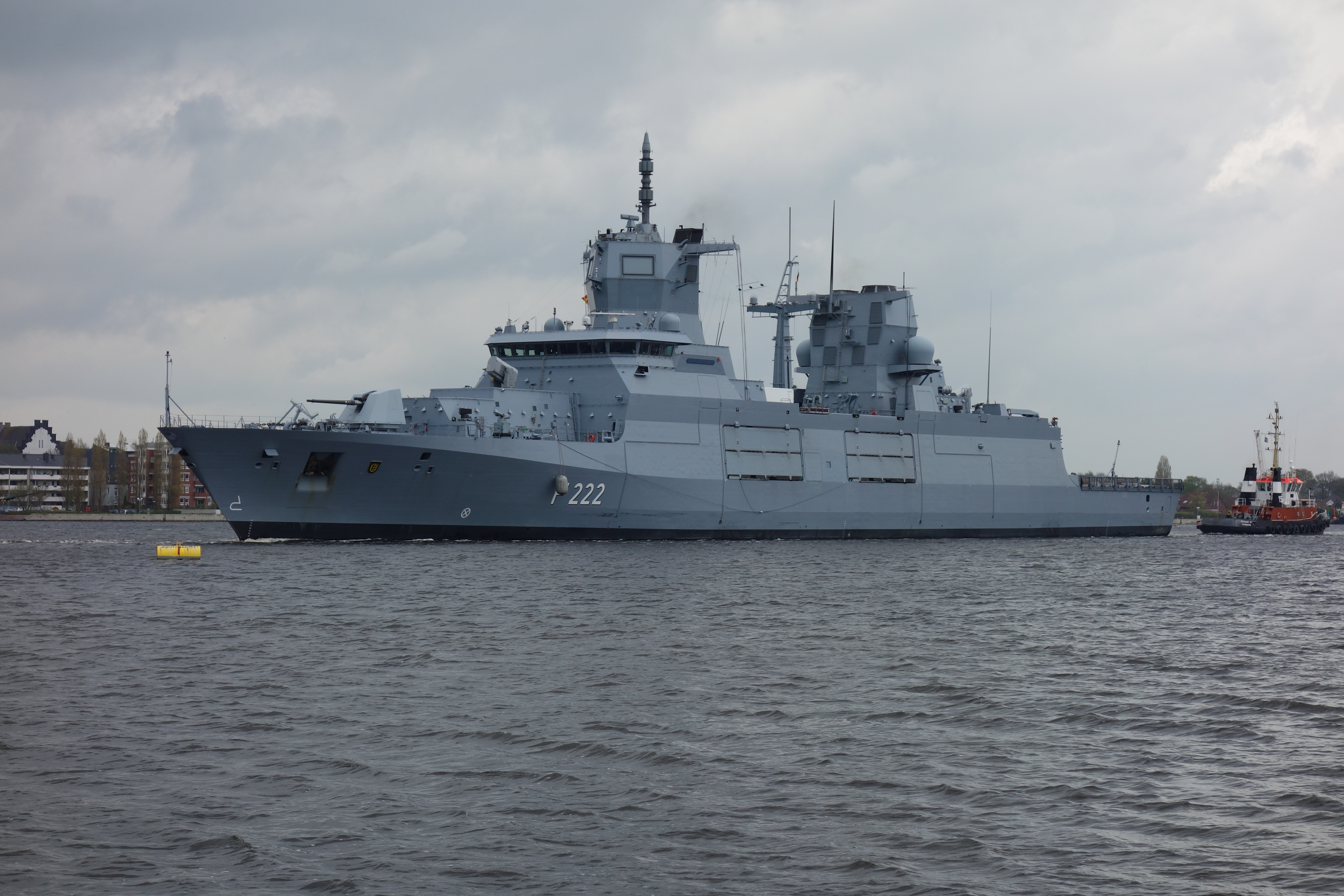 Not yet commissioned frigate Baden-Württemberg at the deperming range in Wilhelmshaven, assisted by tugboat Bugsier 15